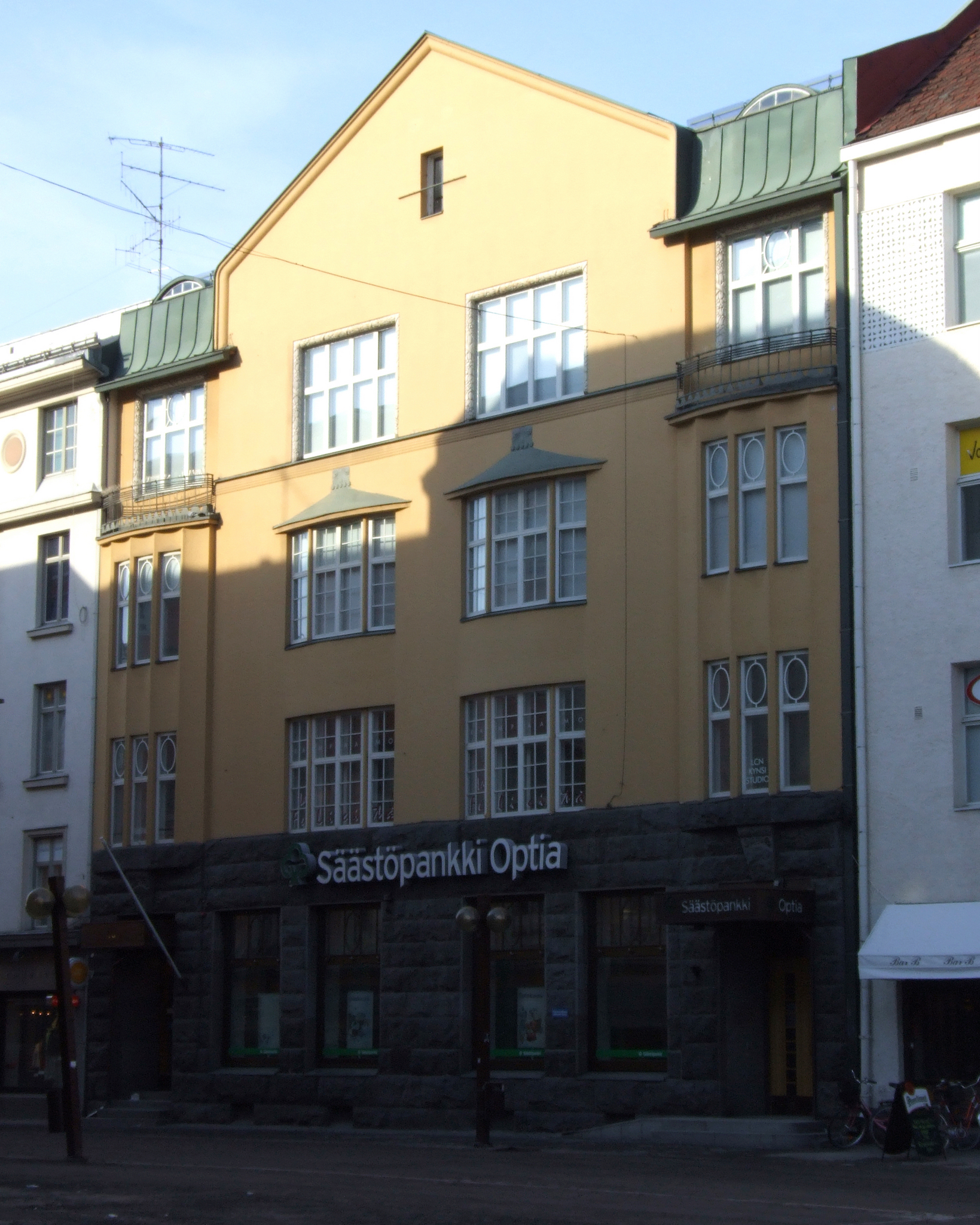 The savings bank "Säästöpankki Optia" in the Kirkkokatu street in Oulu (Finland). The building was designed by architect Wivi Lönn and was completed in 1911.